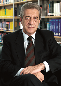 Alajdin Abazi, physicist and electrical engineer from Macedonia